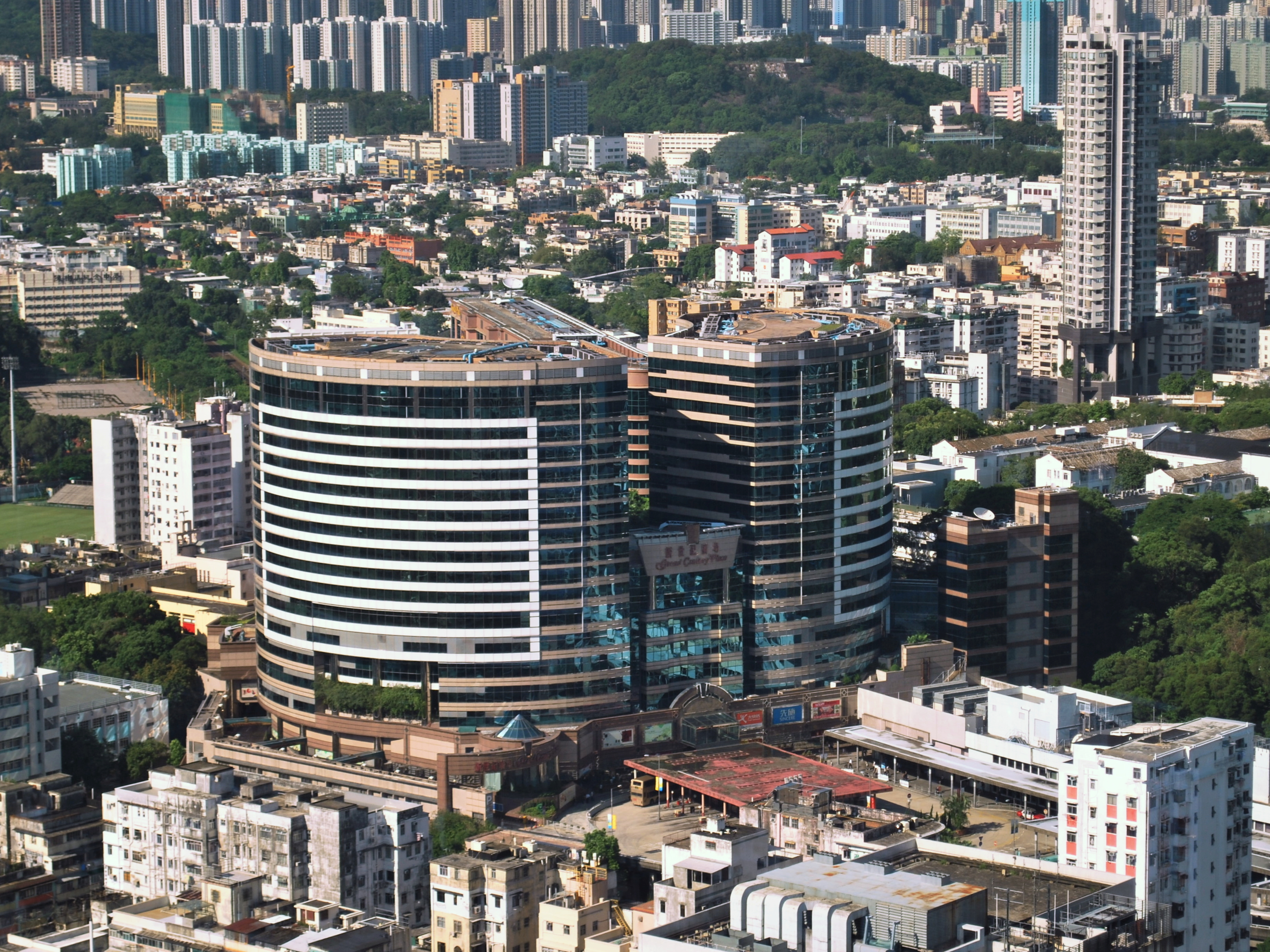 New Century Place in Mong Kok, viewed from Langham Place. 中文（香港）: 旺角新世紀廣場